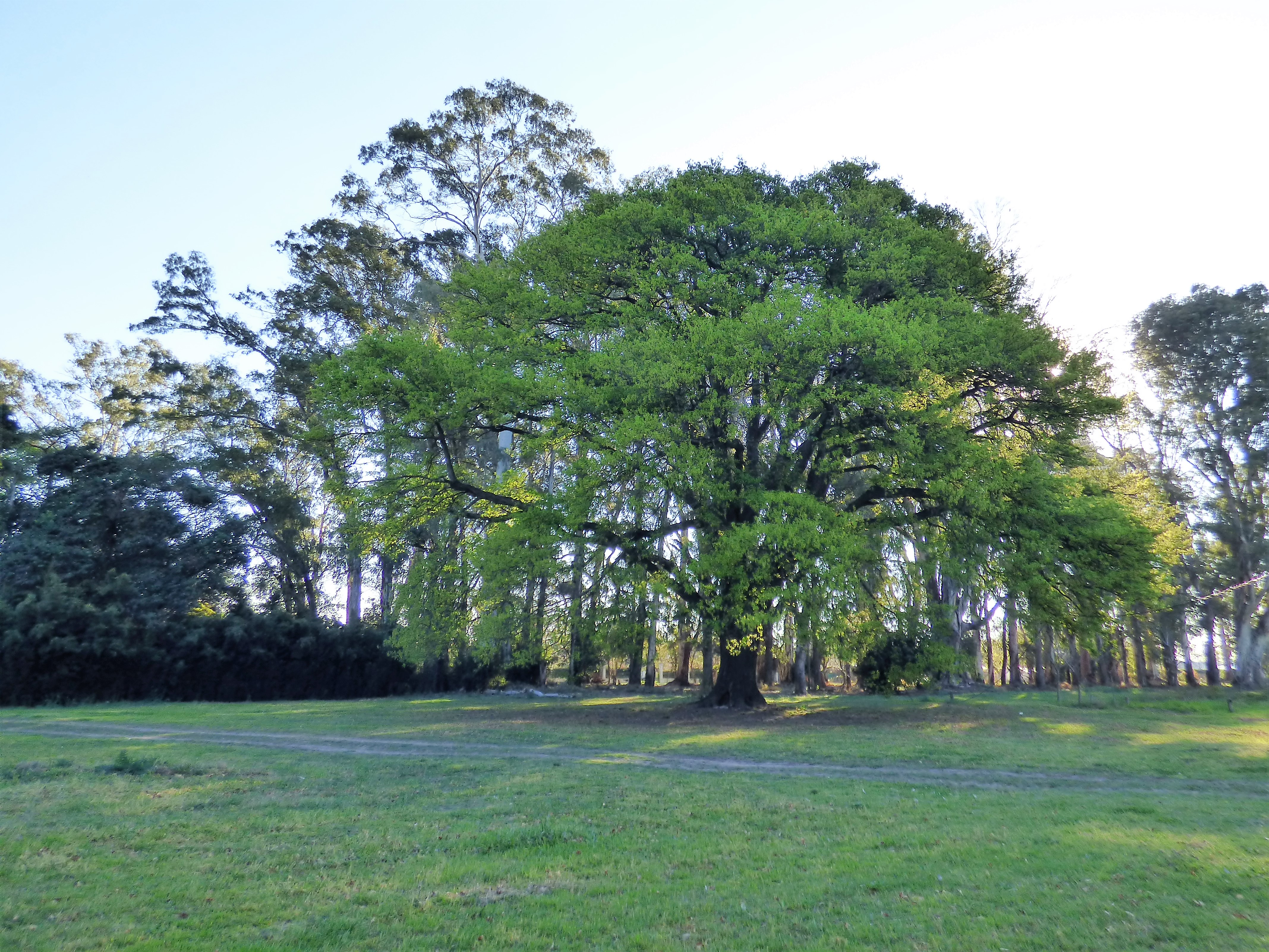 European oak (Quercus robur) very old that still grows in Área Natural Protegida Florindo Donati, of Universidad Nacional de Rosario